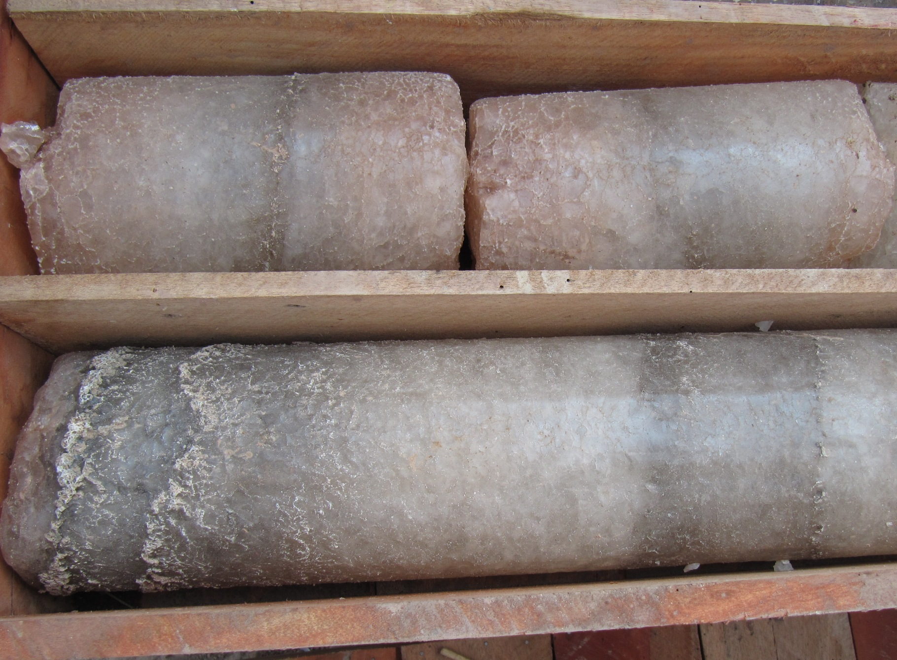 Halite drilling core sample, taken in Nong Bok, Khammouan, Laos. The evaporites of the Nong Bok Formation are dated as Upper Cretaceous according to palynological data (cf. Zhong et al., 2012, Acta Geoscientica Sinica (CAGS Bulletin) 33(3):323-330